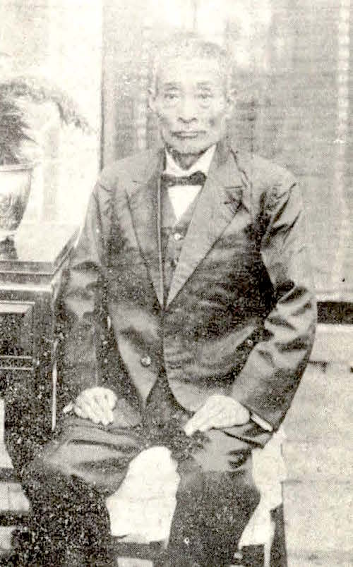 Lim I-tiau (林維朝), Taiwanese poet.